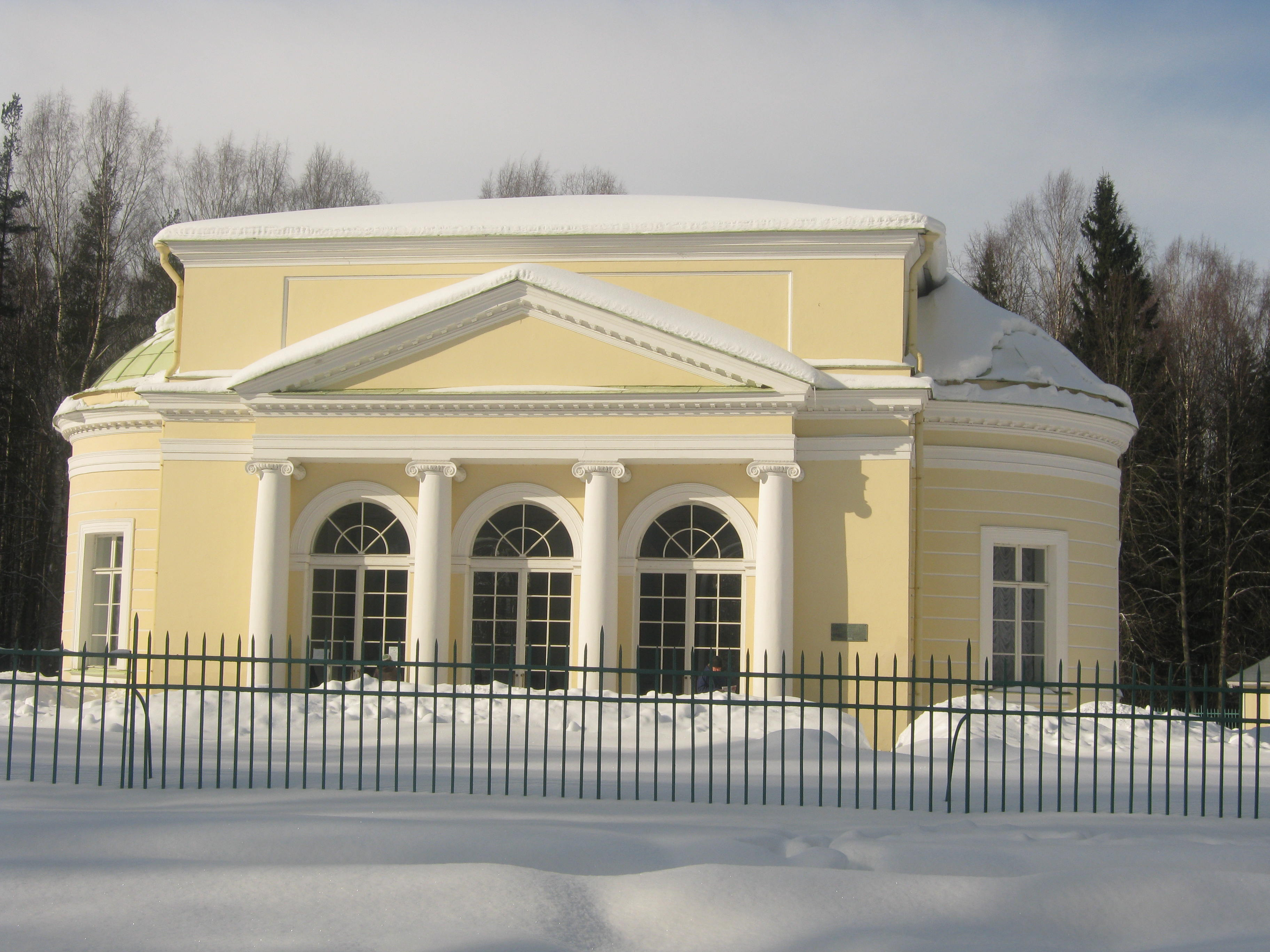 Pavlovsk (Russia)